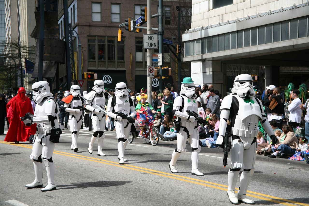 Stormtroopers march (St. Patrick parade, Atlanta, Georgia, USA)